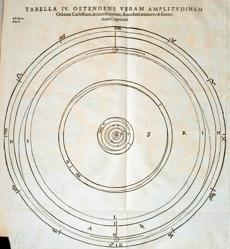 TABLE IV, Showing the true extent of the celestial spheres, and of the spaces between them, according to the numbers and opinion of Copernicus